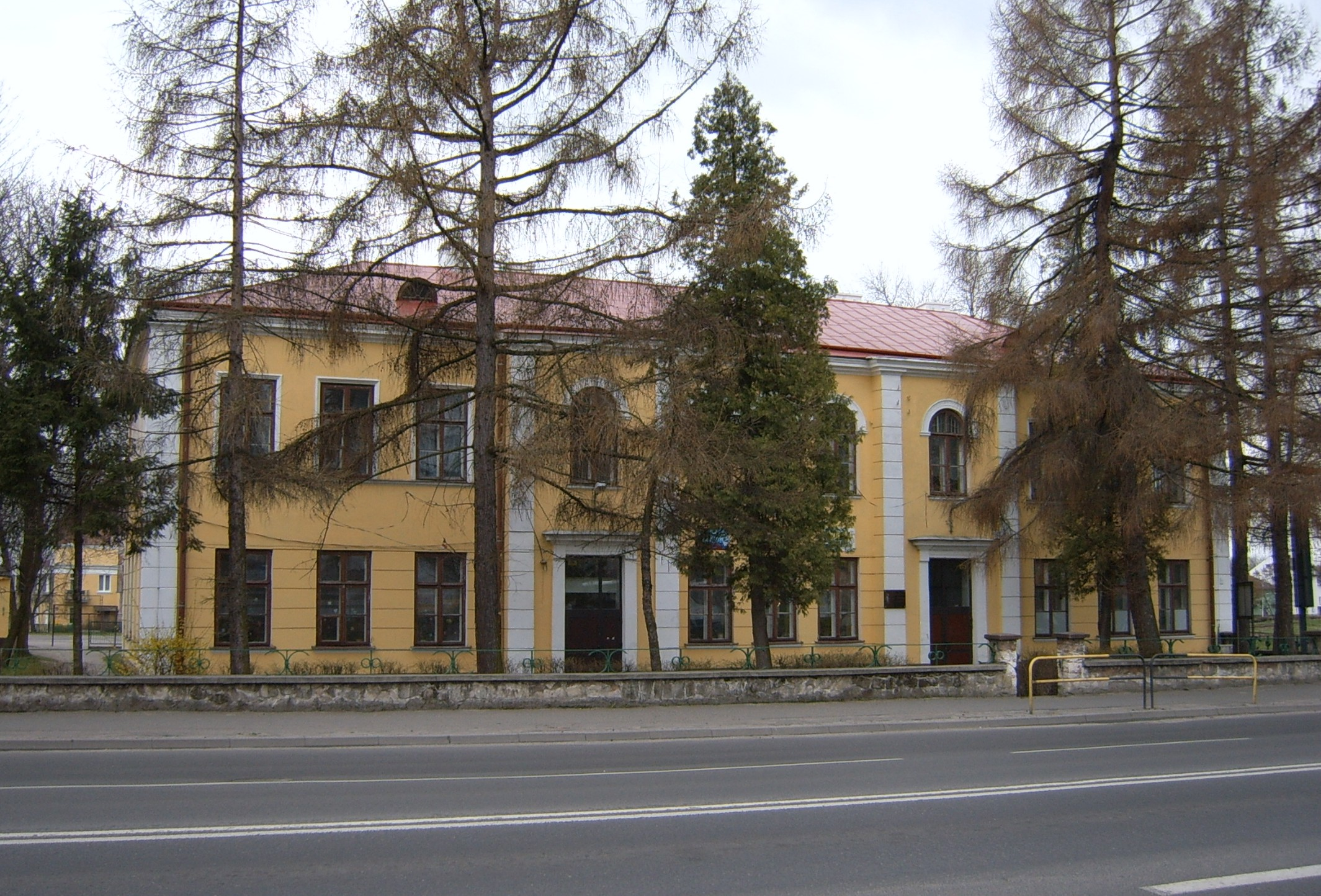 High school, previously Gymnasium (school) no. 1 in Zamość